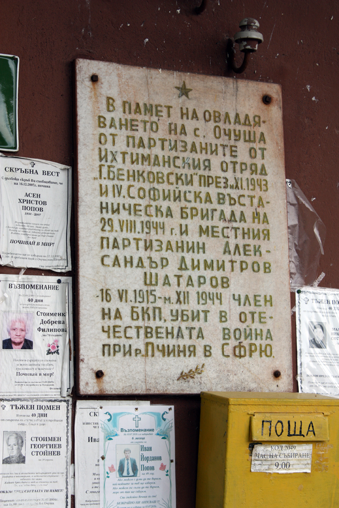 Partisan memorial plate from Ochusha village